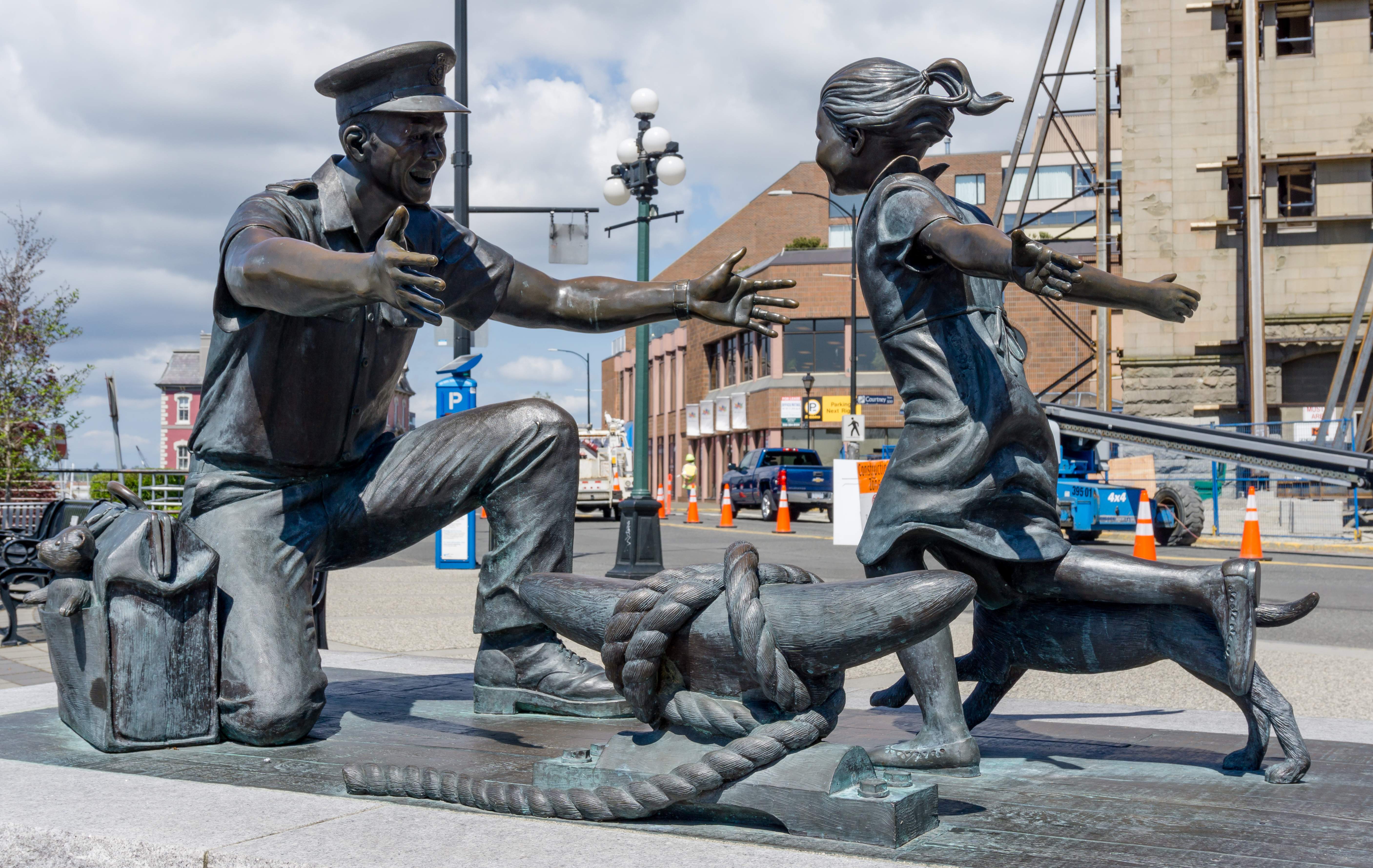 Homecoming Statue in Victoria, British Columbia, Canada